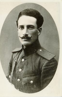 Lahak-khan Bavand